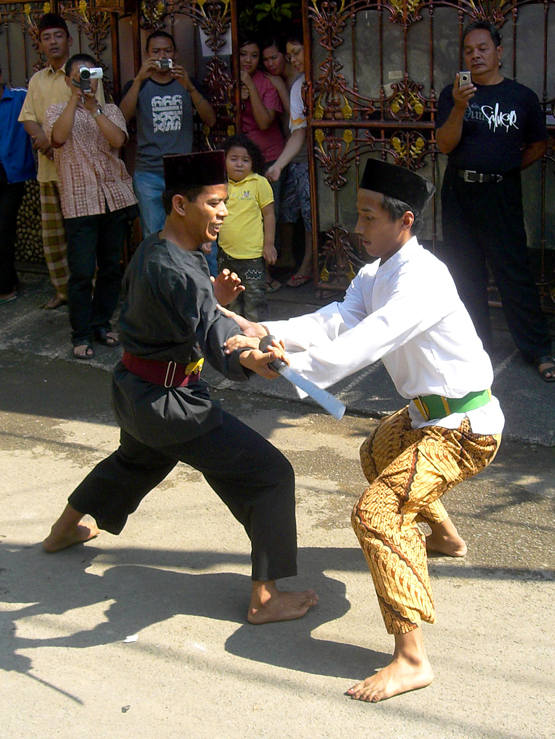 Pencak silat Betawi style performed during Betawi wedding ceremony. The practitioner demonstrates the Silat technique on how to disarm opponent using "golok" blade as a weapon. Rawasari, Jakarta, Indonesia.